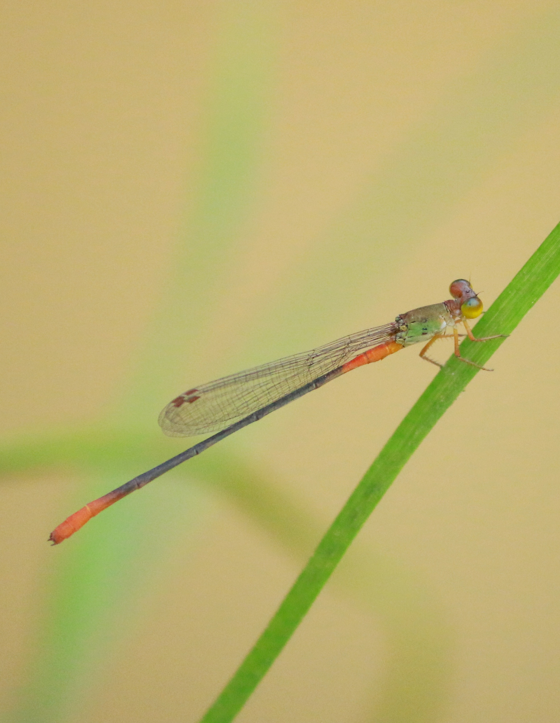 Orange tailed Marsh Dart,Ceriagrion cerinorubellum